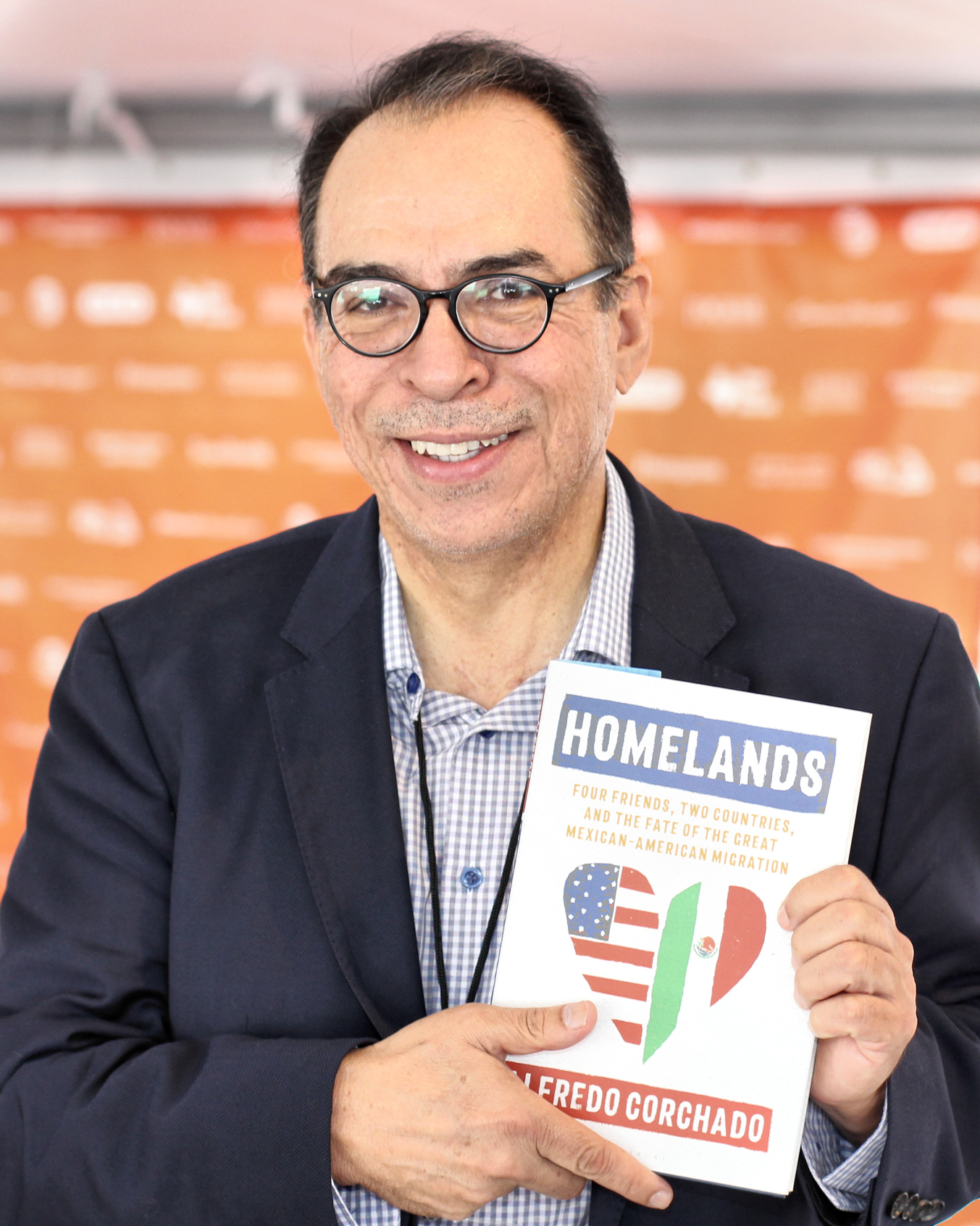 Author Alfredo Corchado at the 2018 Texas Book Festival in Austin, Texas, United States.